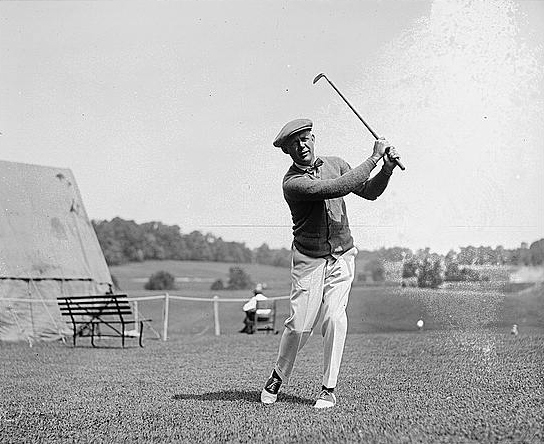 American sportswriter Grantland Rice.